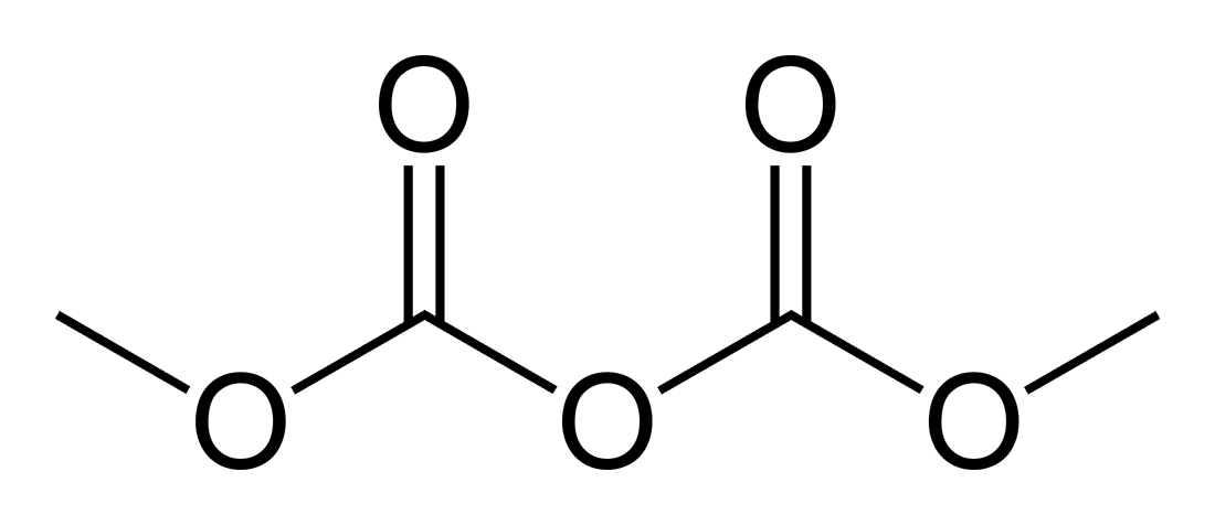 Skeletal formula of the dimethyl dicarbonate molecule